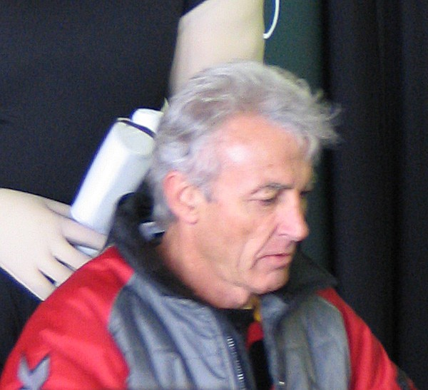 Peter Brock signing autographs at Bathurst 2005, own photo